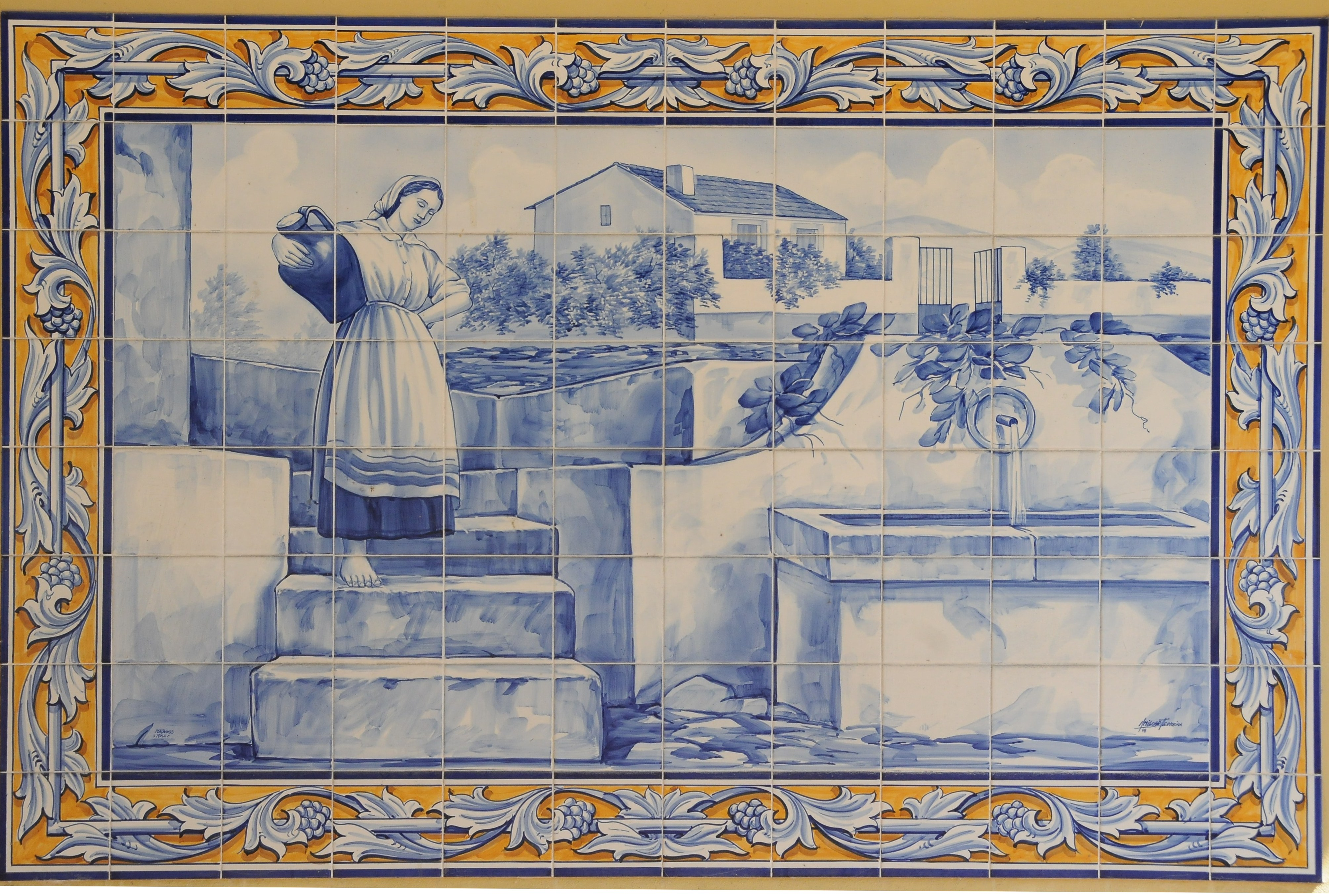 Azulejos in fonte de São Bento in Corticeiro de Baixo, Carapelhos, Mira Portugal.